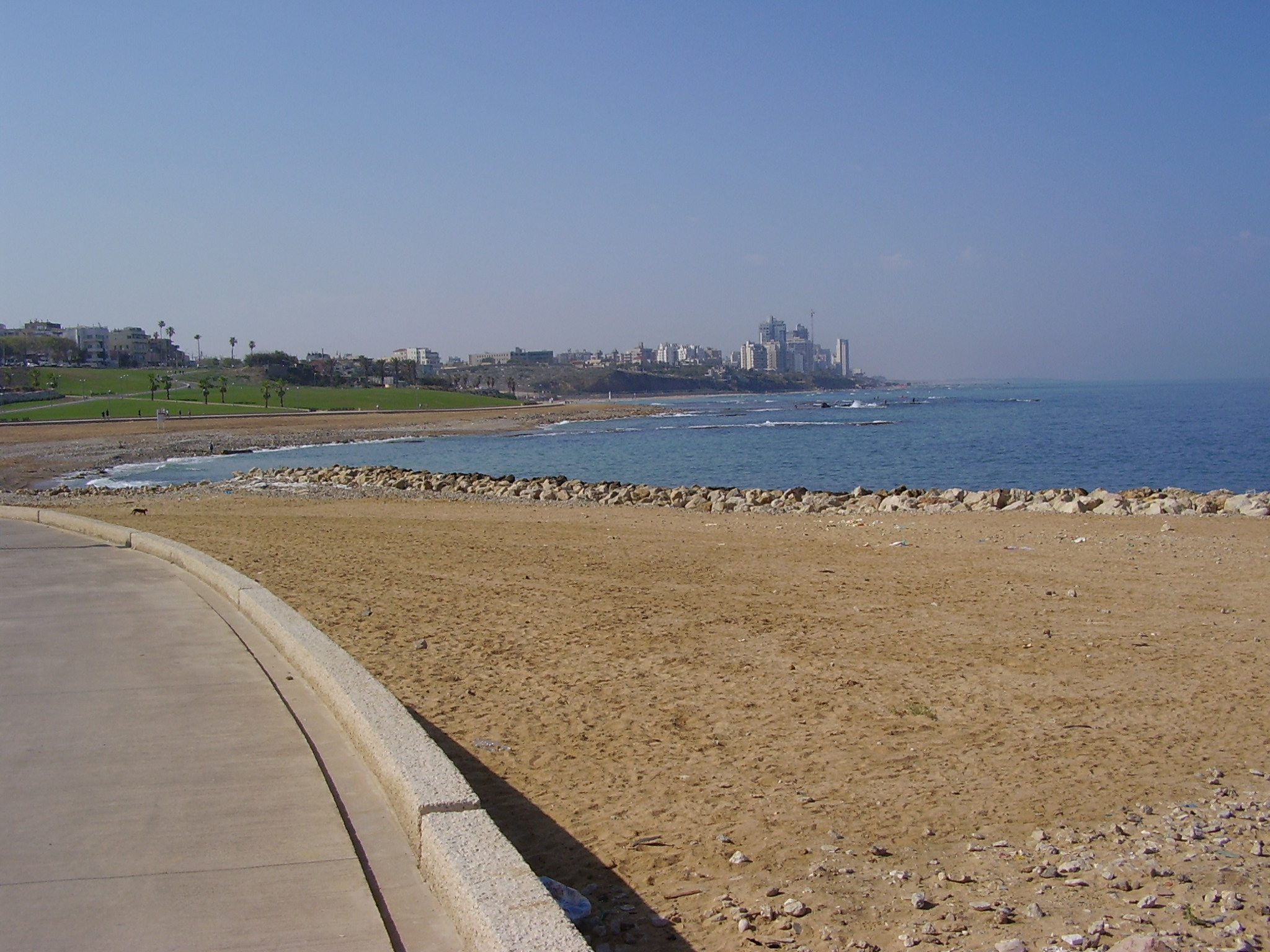 view on bat yam from jaffa slope park